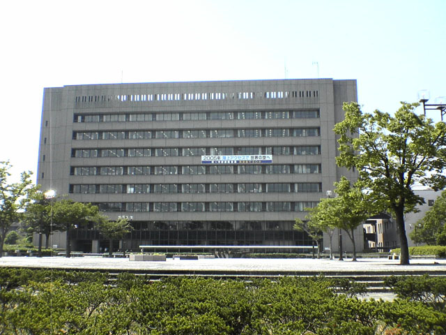 Tsu City Hall in Mie Prefecture, Japan